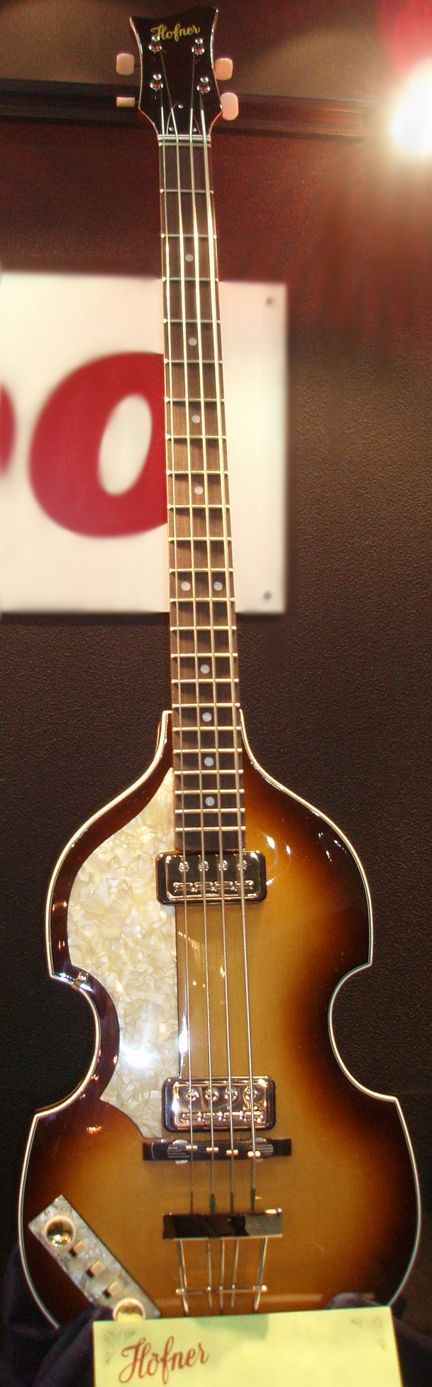 Höfner 500/1 Vintage '62 World History LH Alias to Violin Bass